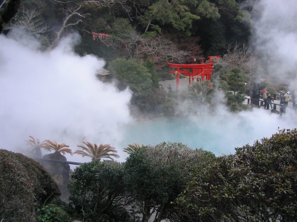 Umi jigoku (means torture of Sea) in Beppu, Oita prefecture, a famous onsen resort on the island of Kyushu in Japan.